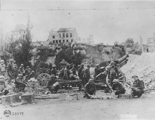 US gunners with 155 mm cannon, Varennes, France, World War I.